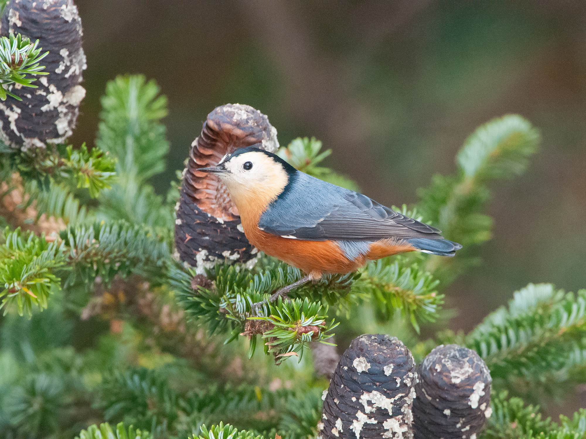 A Przevalski's Nuthatch Sitta przewalskii in fresh plumage, with foliage and cones of Farges's Fir Abies fargesii. Lianhua Mountain, Lanzhou, Gansu, China.